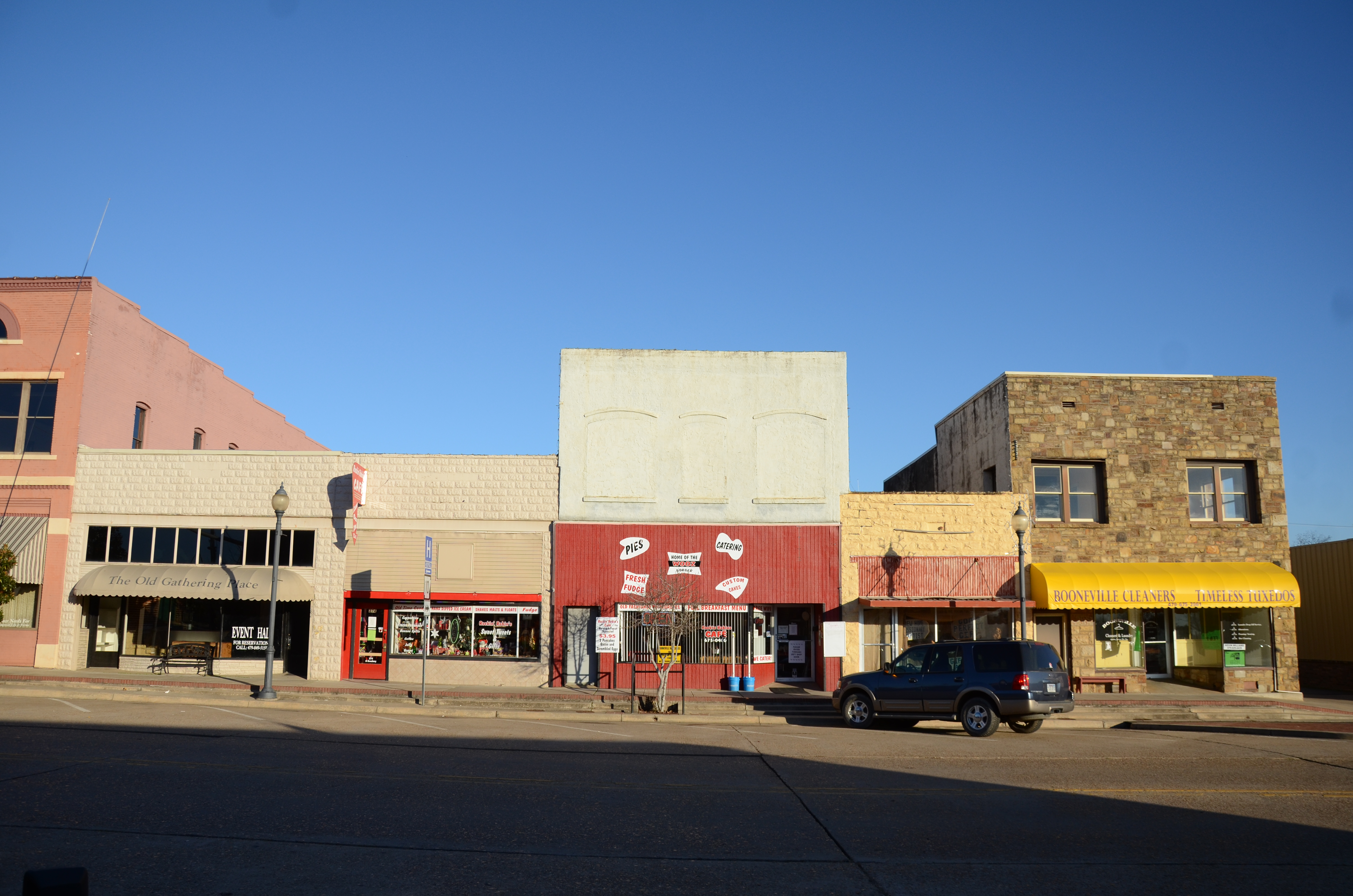 Booneville Commercial Historic District, East side of 100 and 200 blocks of North Broadway Avenue Booneville